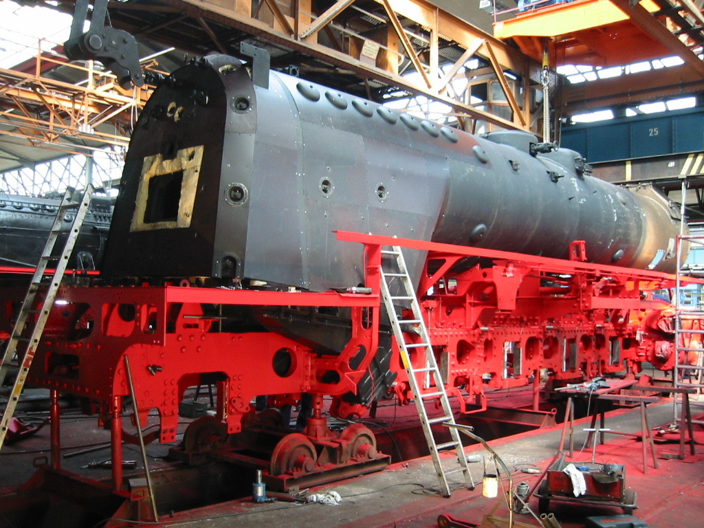 Lokomotive frame with boiler